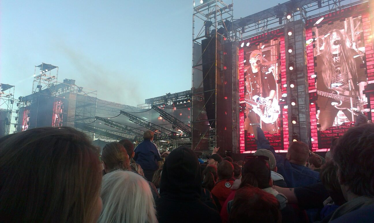 Kabát at airport Letňany 23. 6. 2015